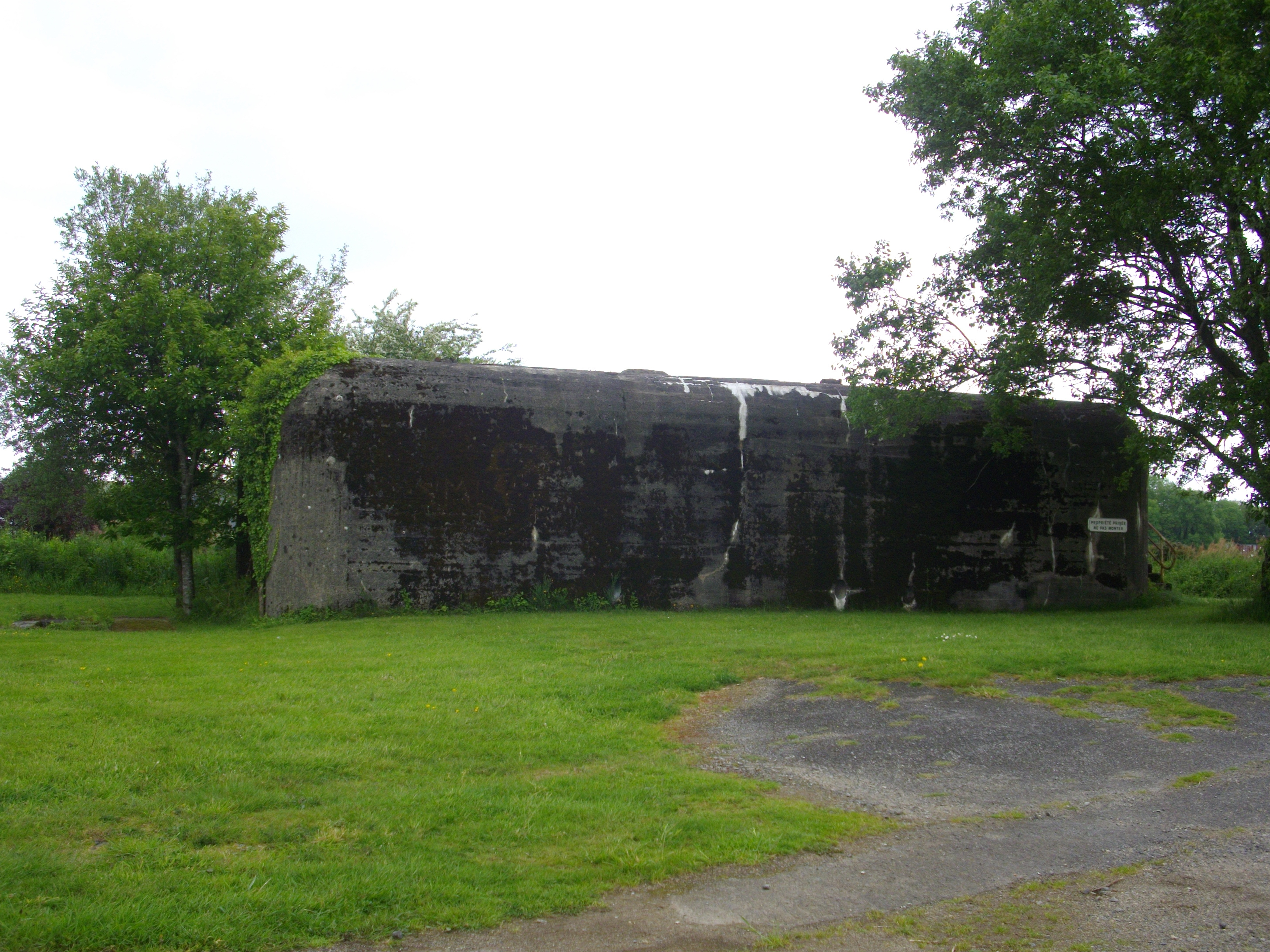 Bunker on Vannes-Monterblanc airport (Morbihan, France)